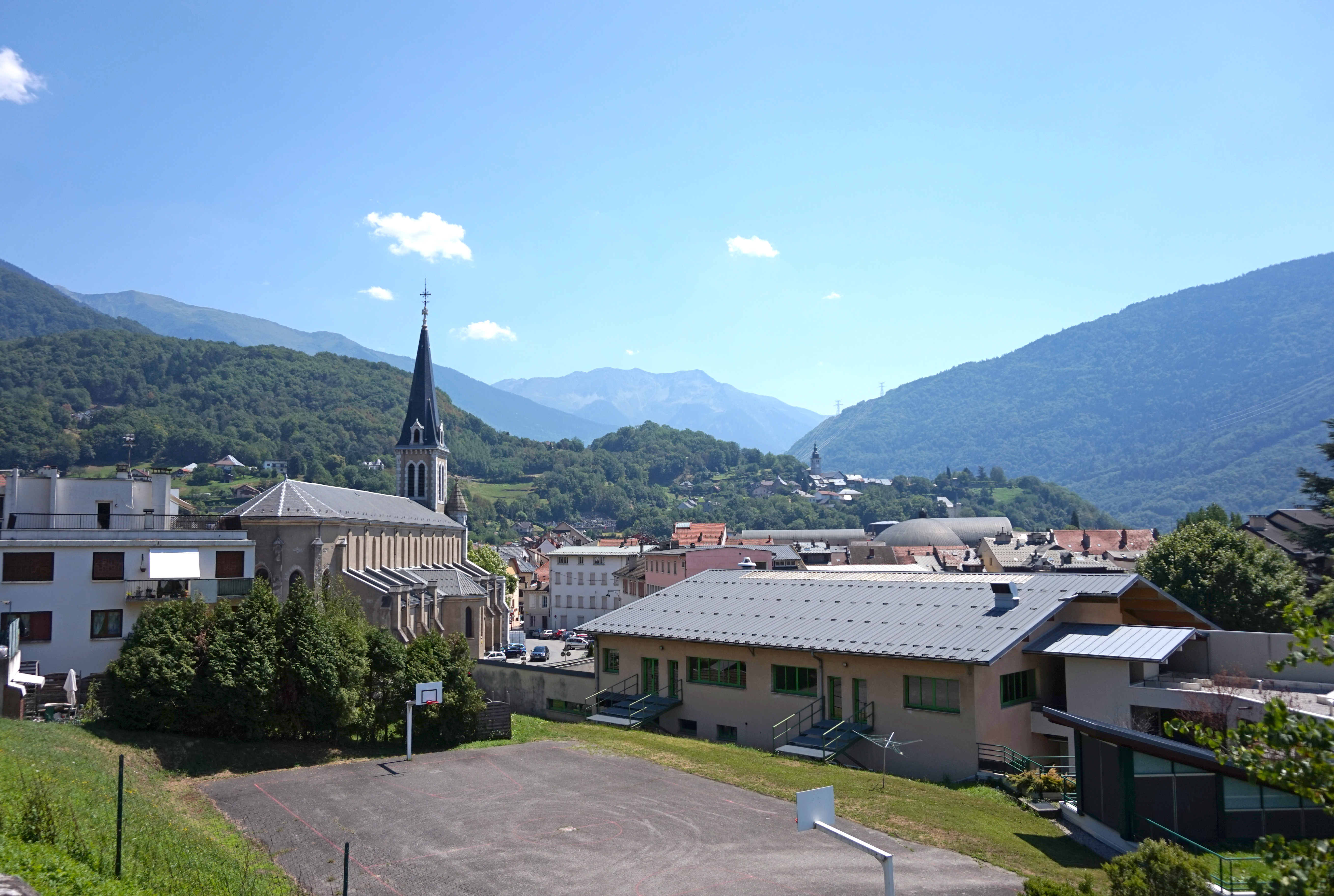 Albertville, France.This photograph was taken with a Sony ILCE-5000